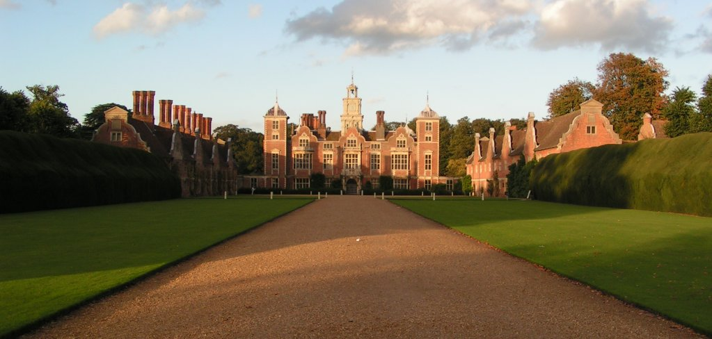 Blickling Hall near Aylsham, Norfolk, England. The main driveway to the main house.